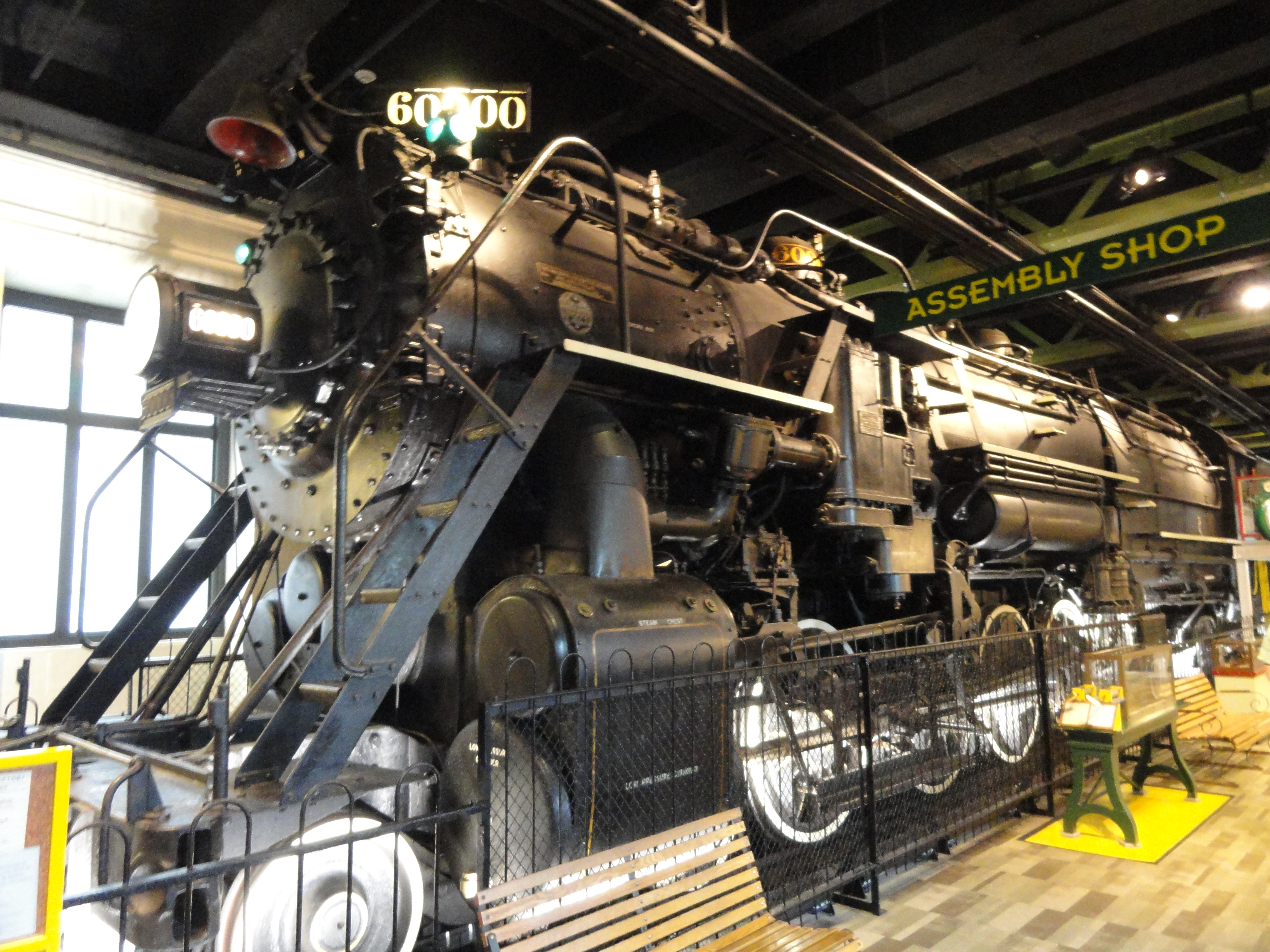 Exhibit in the Franklin Institute, Philadelphia, Pennsylvania, USA.